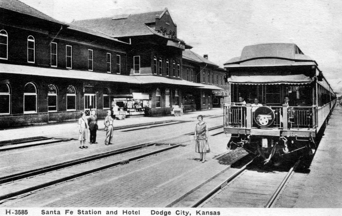 Postcard photo of the Santa Fe Chief at the Kansas City, Kansas depot and hotel in 1929.